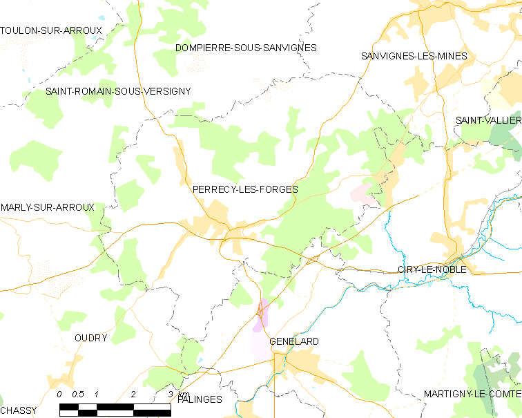 Map of French municipality